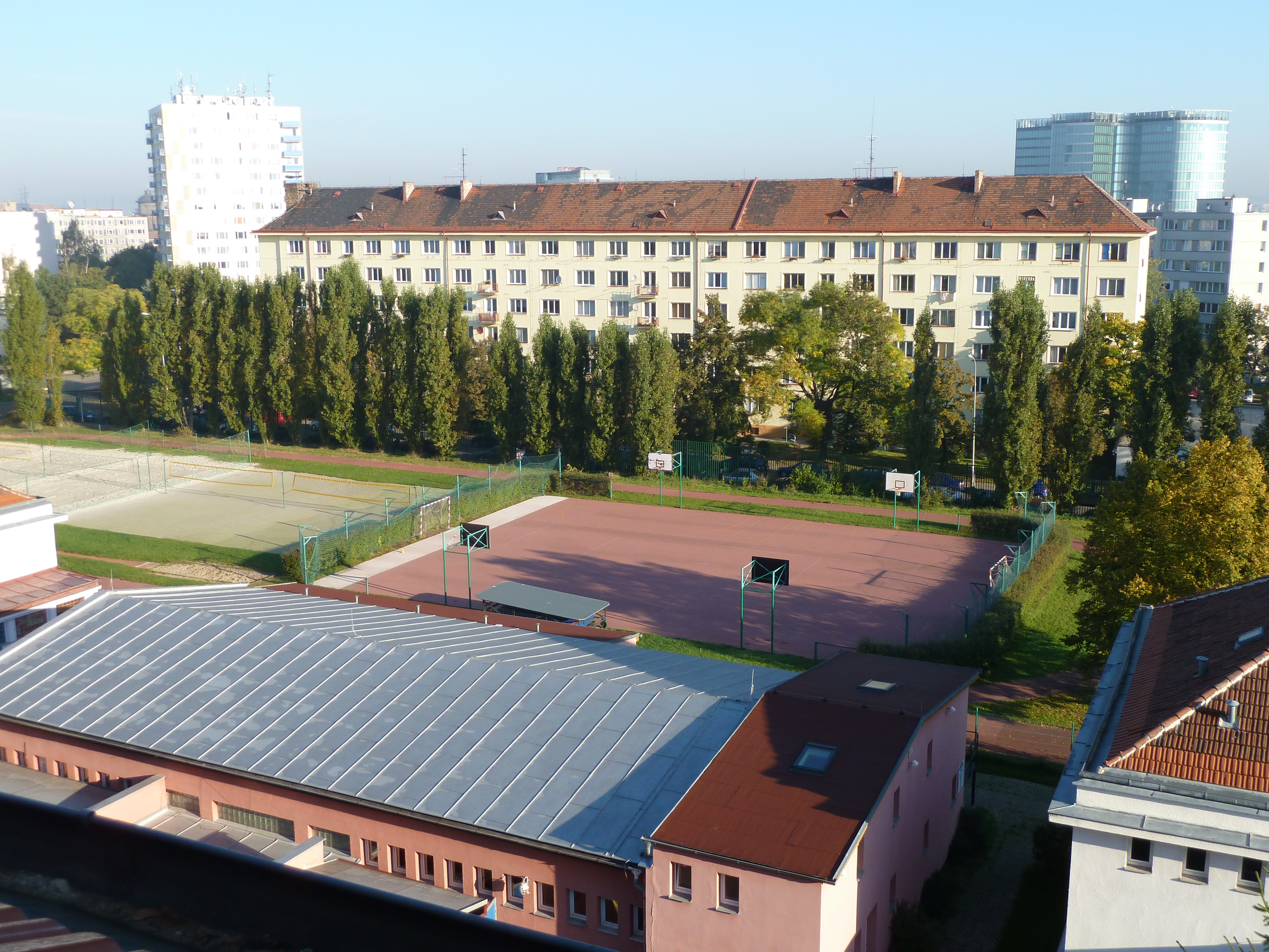 Gymnázium Budějovická, Prague – view of Sedlčanská Street